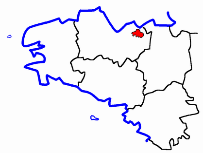 Description: Map for localisazion of cantons of Bretagne region in France Source: made by Hervé Tigier in april 2005 from another large map (published in 1990)